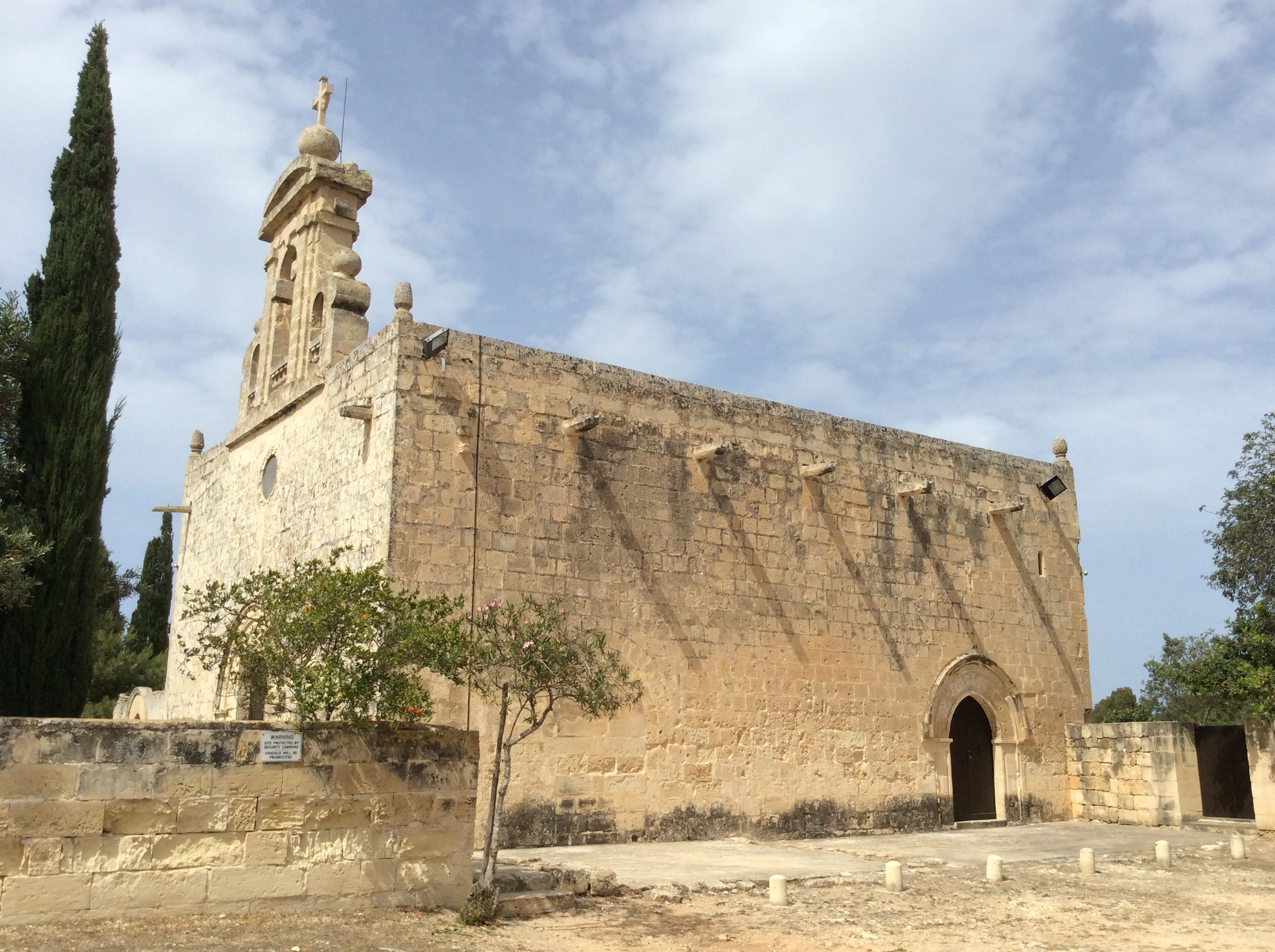 Bir Miftuh Chapel